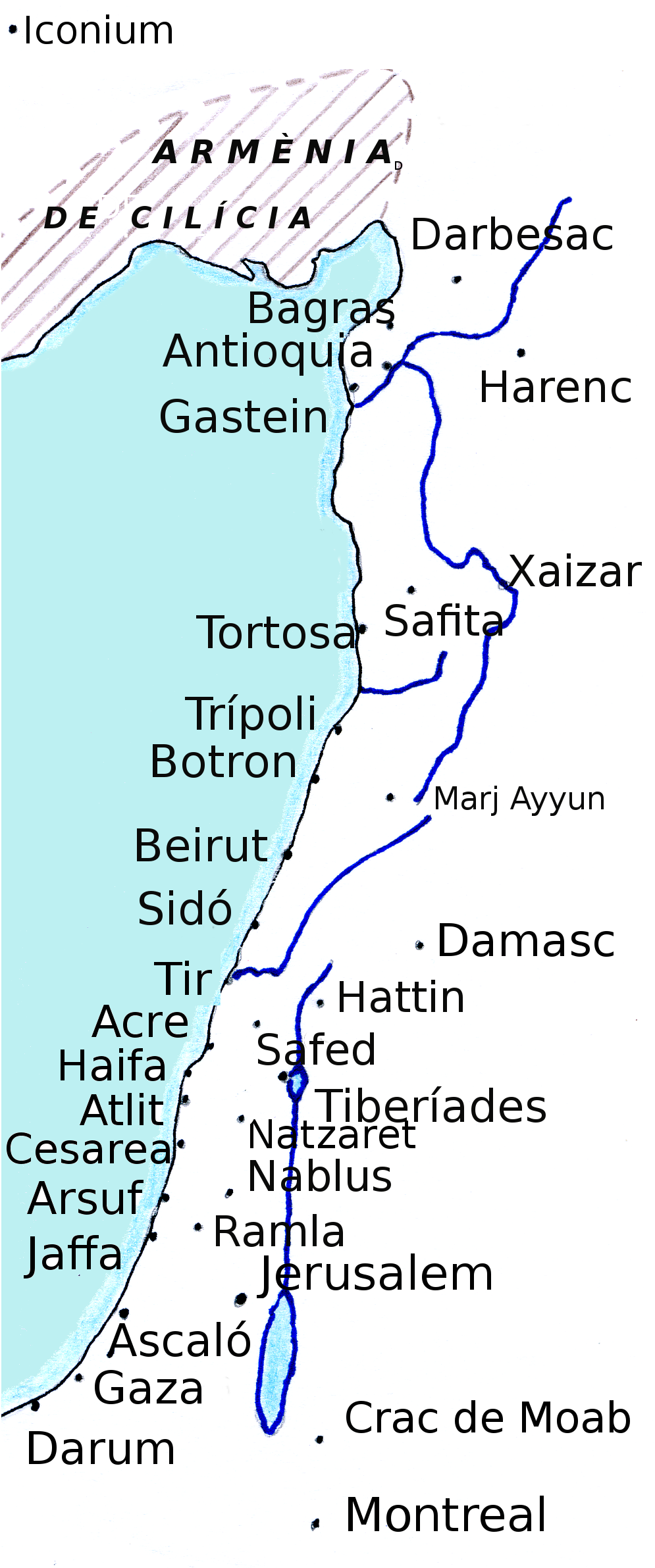 Cities in the Levant in the period of the Crusades.